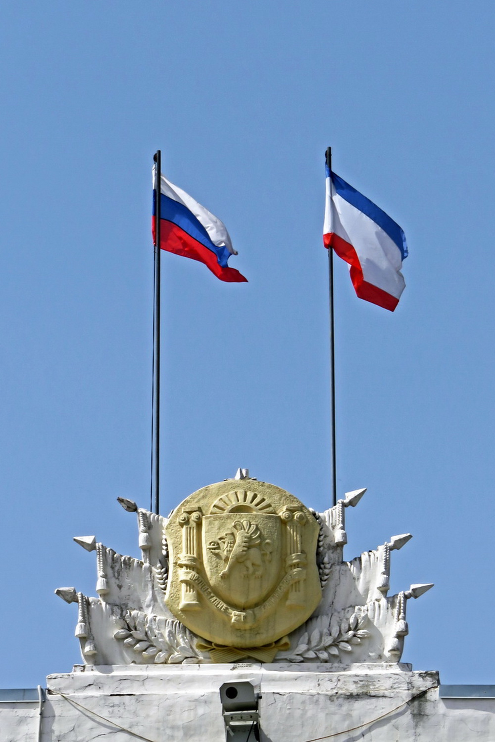 Simferopol, Council of ministers of Crimea